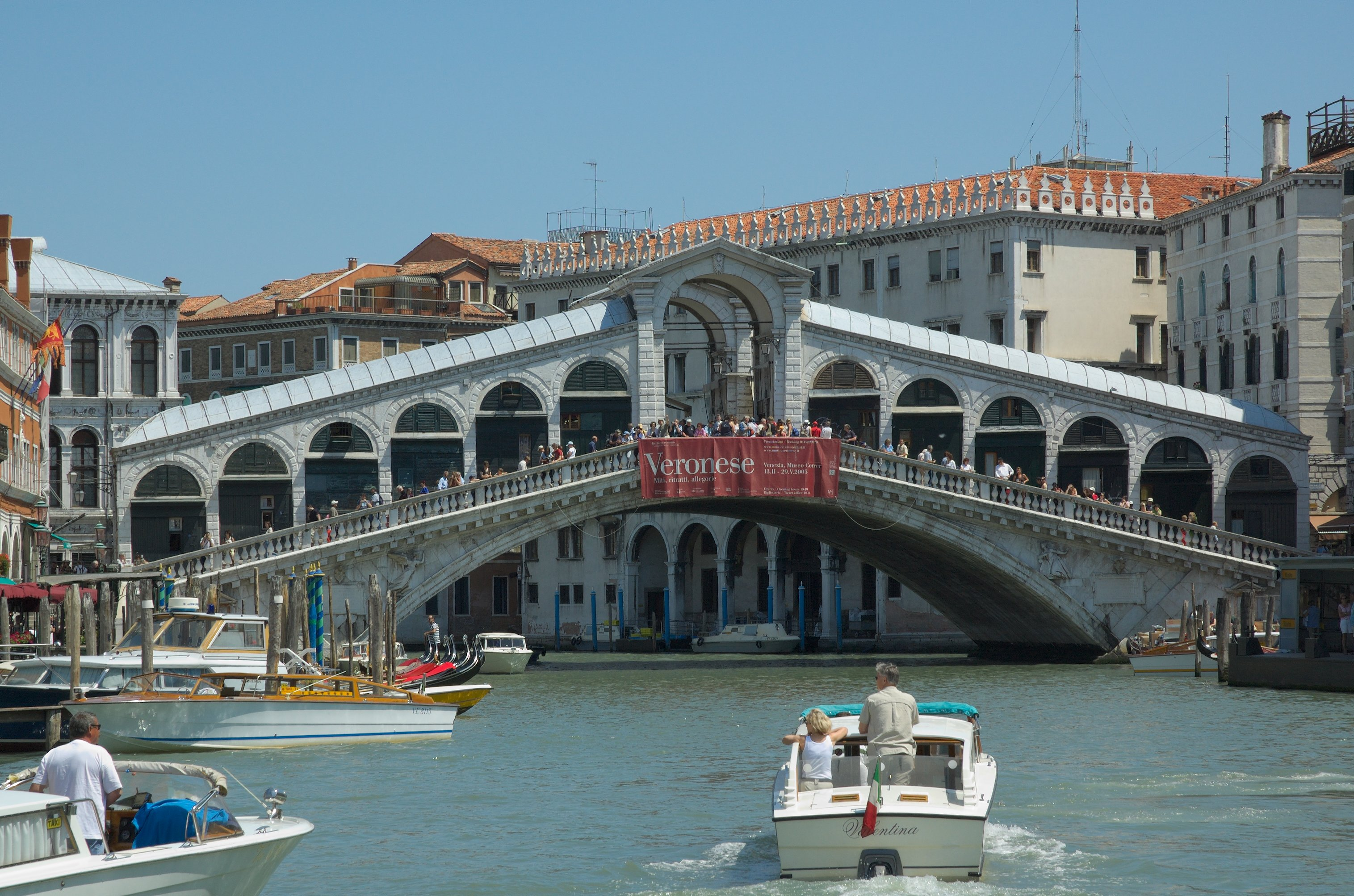 Rialto Bridge, Venice, with a couple of water taxis in the foreground.